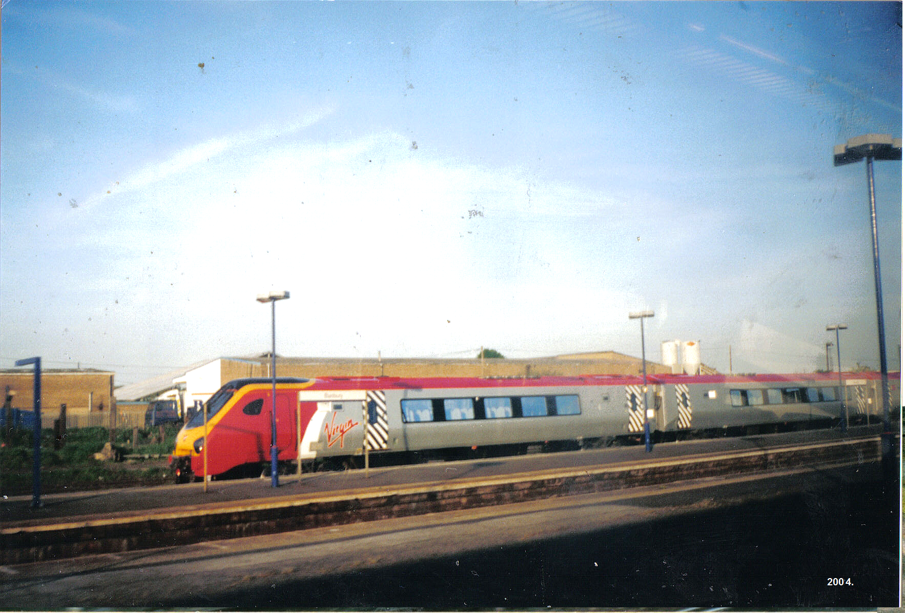 A Virgin Trains 'Virgin Voyager' train at Banbury station in 2004.